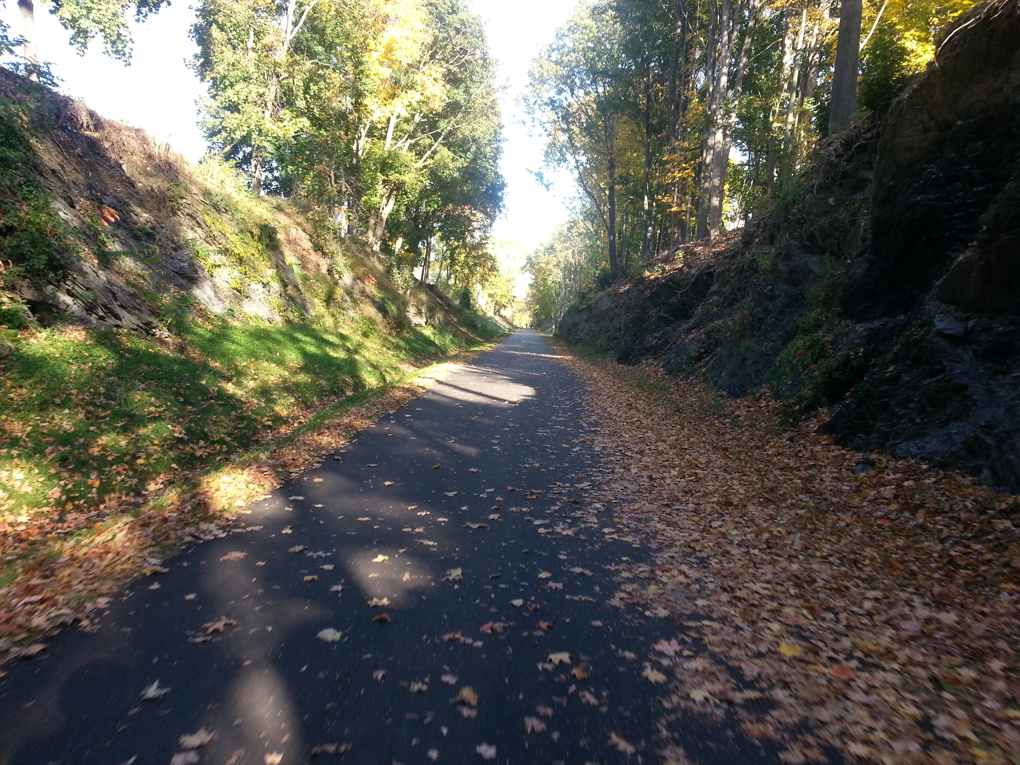 Dutchess Rail Trail section North of Morgan Lake